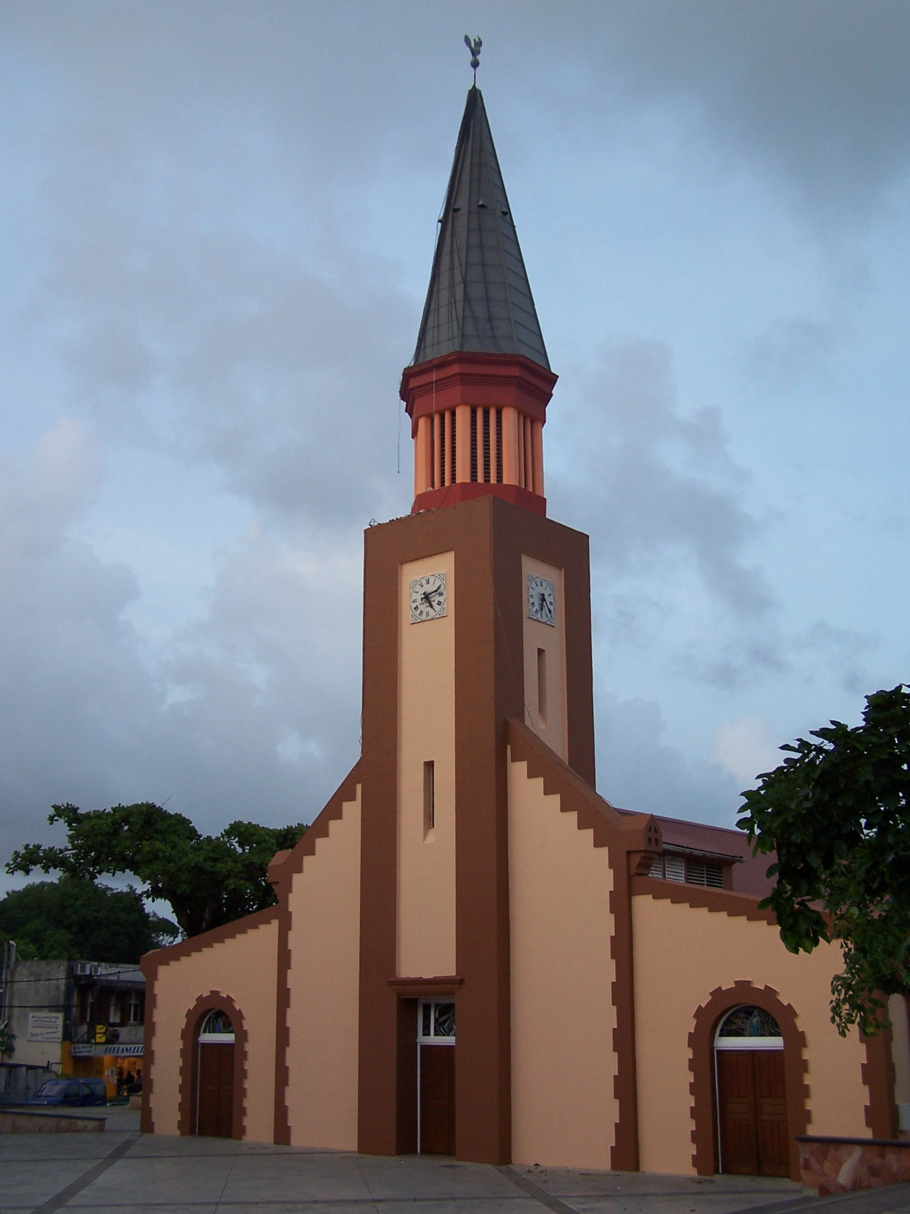 Église de l'Immaculée-Conception des Abymes, Guadeloupe